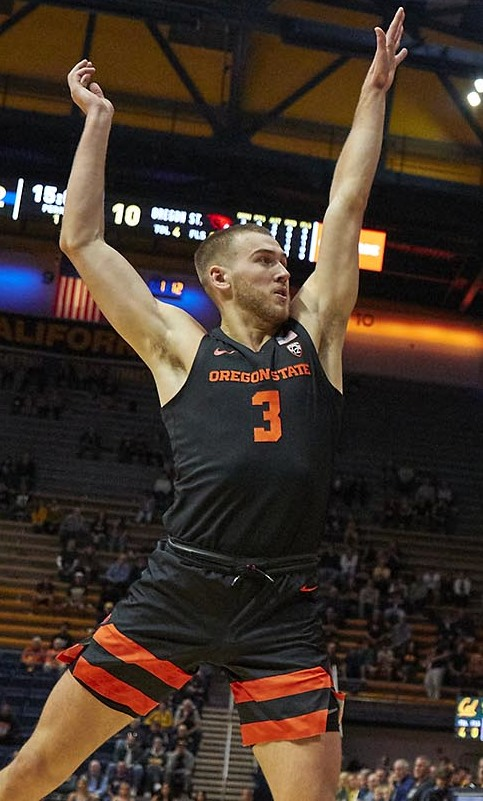 University of California Golden Bears hosted Oregon State University Beavers, Pac-12, Mens Basketball, Haas Pavilion, Berkeley, CA